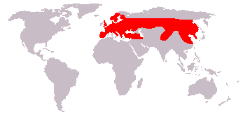 Range of the European Roe Deer (Capreolus capreolus) and the Siberian Roe Deer (Capreolus pygargus).